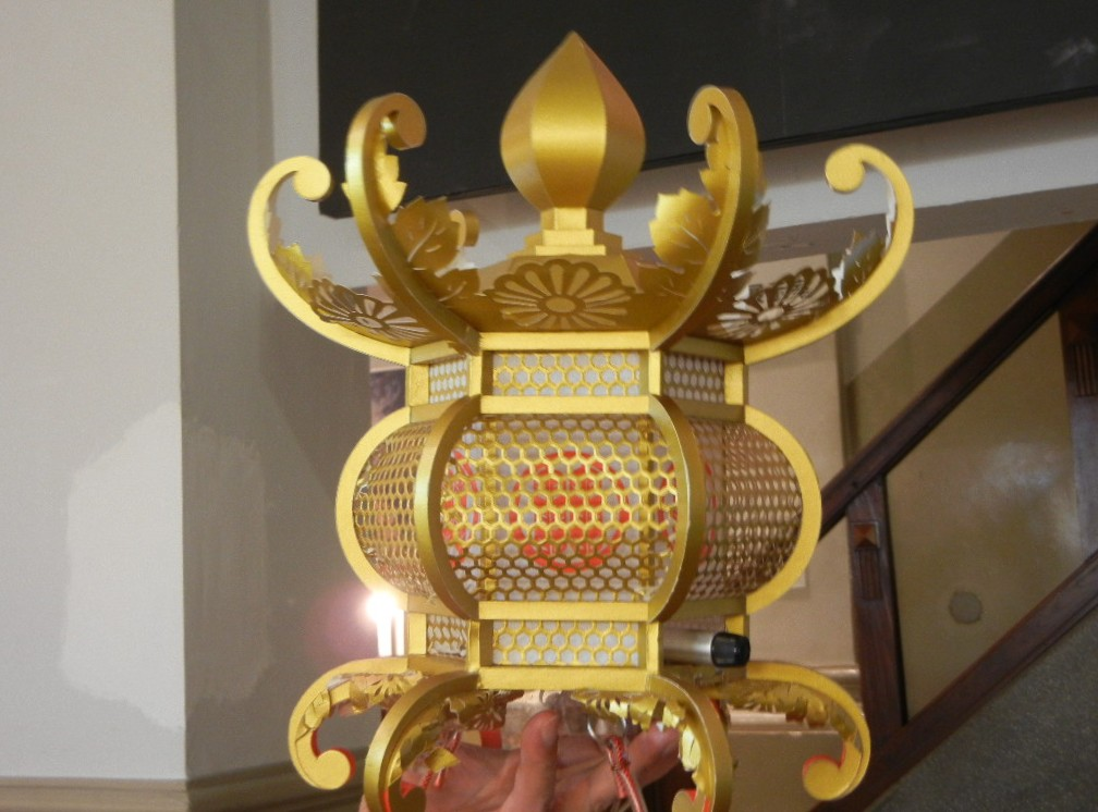 Yamaga-Lantern. 熊本県山鹿市の民芸品「山鹿灯籠」, Yamaga.